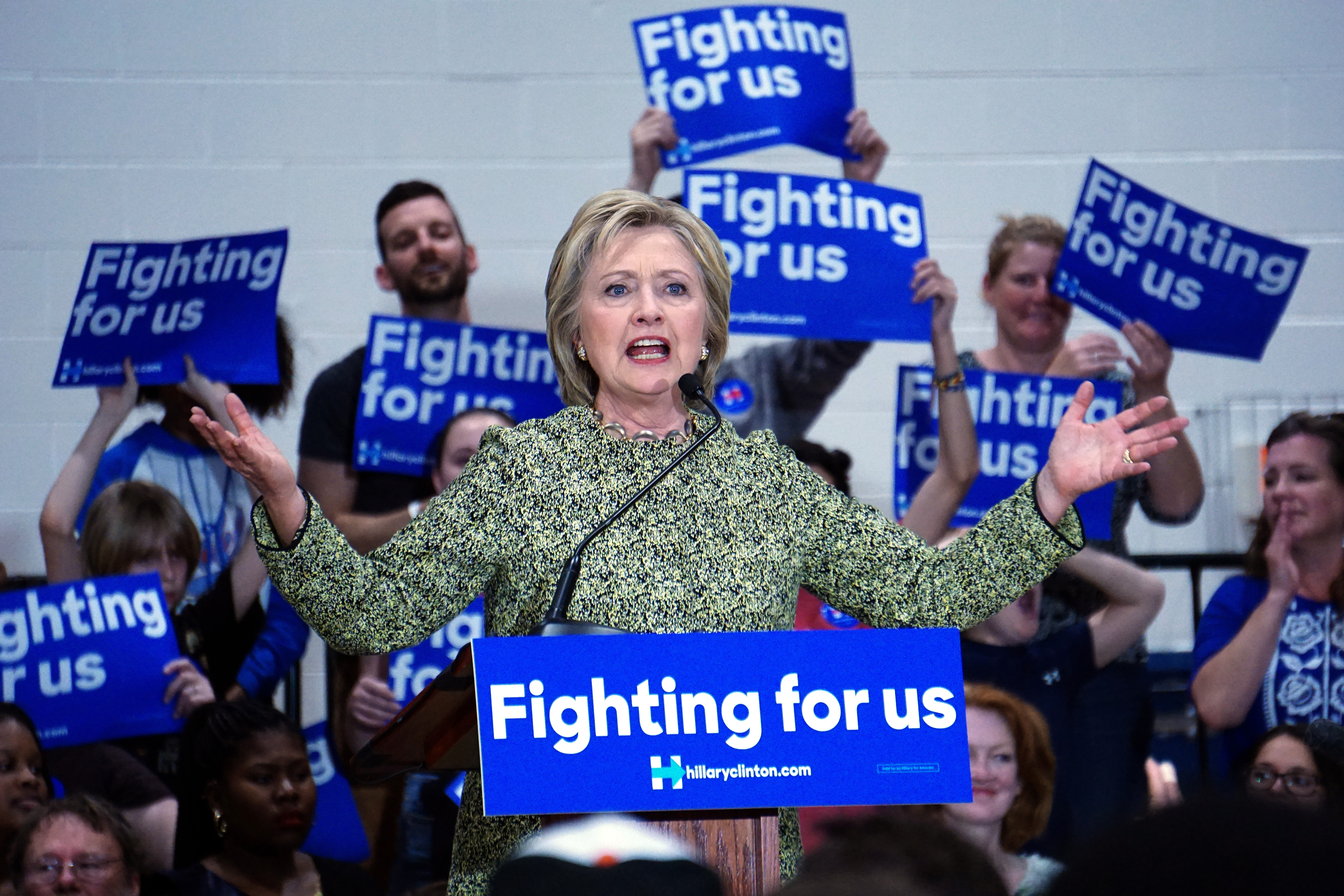 Campaign rally at Hillside High School in Durham, North Carolina